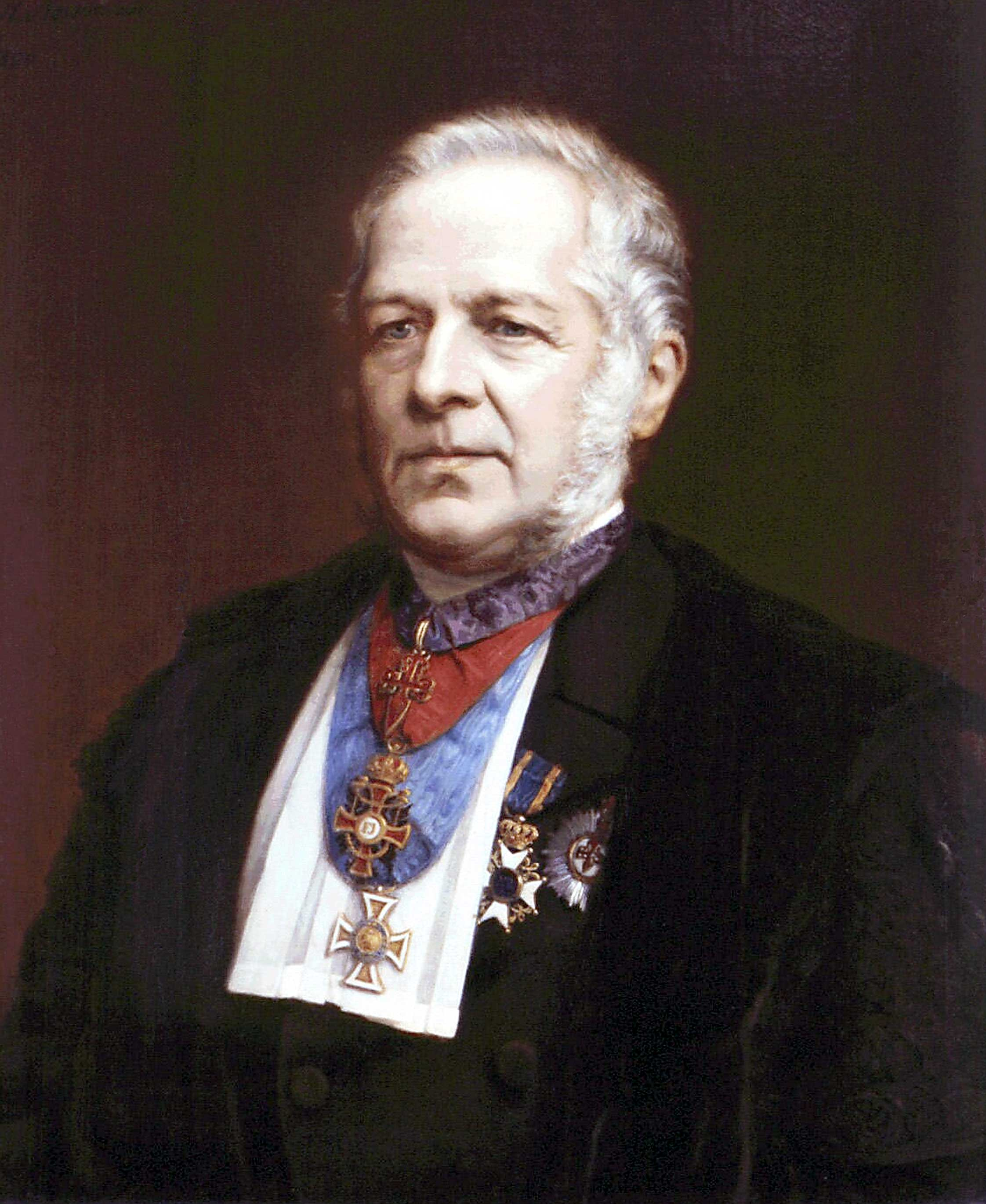 Christophorus Henricus Didericus Buys Ballot (10 October 1817- 3 February 1890)